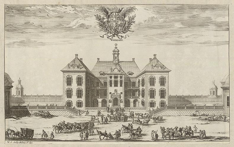 Venngarn castle, Uppland, Sweden.Wenngarn is mentioned in a letter already in the 1160s - in connection with Sweden's first Archbishop Stefan. Since then, different things have owned the estate and through his grandmother Sigrid Eskilsdotter becomes Gustav Vasa owner in the 1550s. In the early 17th century, Jacob De la Gardie leases the estate and his as Magnus Gabriel De la Gardie buys Wenngarn in 1653 and begins a large rebuilding 1661. Around 1695, when Willem Swidde performed his copper engraving of the Venngarns castle in Suecia Antiqua et Hodierna, the castle had on the courtyard side between the stairwell and the grandchildren arcade gallery and sculpted-soft wooden tents. The facades were originally whitewashed with decorations and details in different stone colors. The decorations around the windows were painted in carbon black and red, the corner chains in gray. Balustrades and sculptures in both wood and stone were also painted gray. The ceiling was clad with red colored shavings.